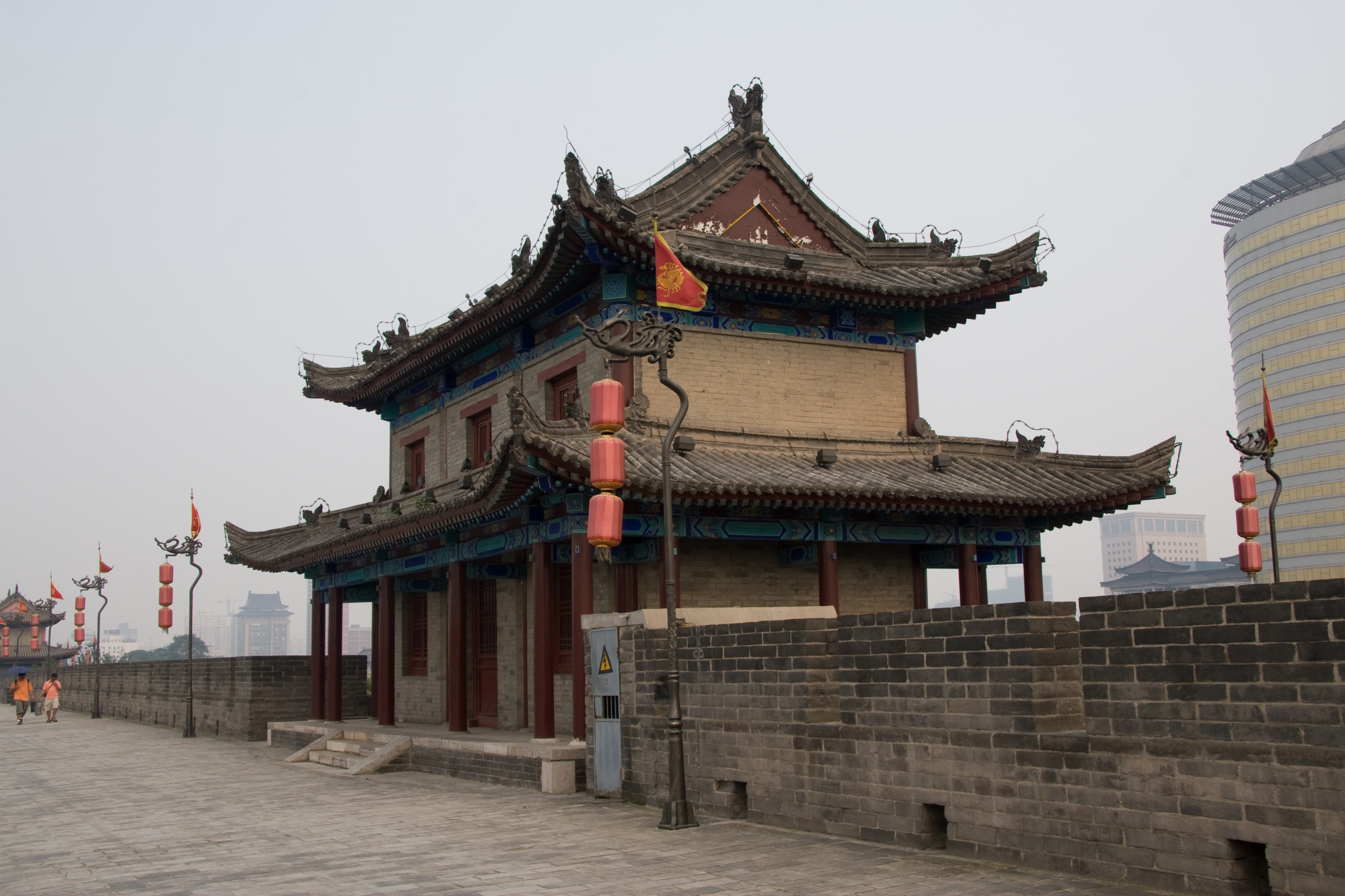 City Wall in Xi'an, China